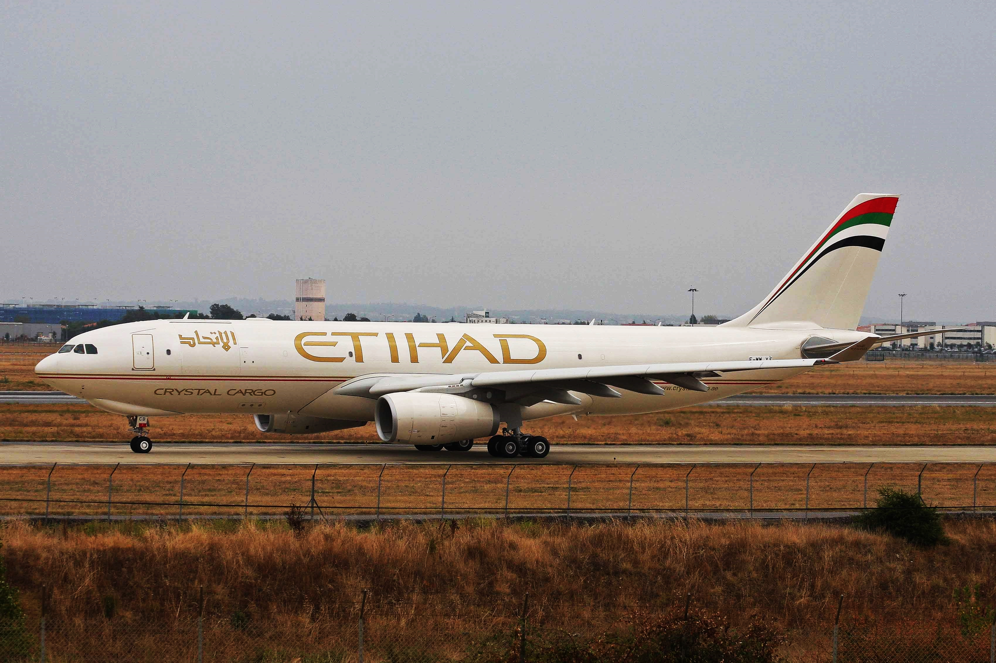 c/n 1070